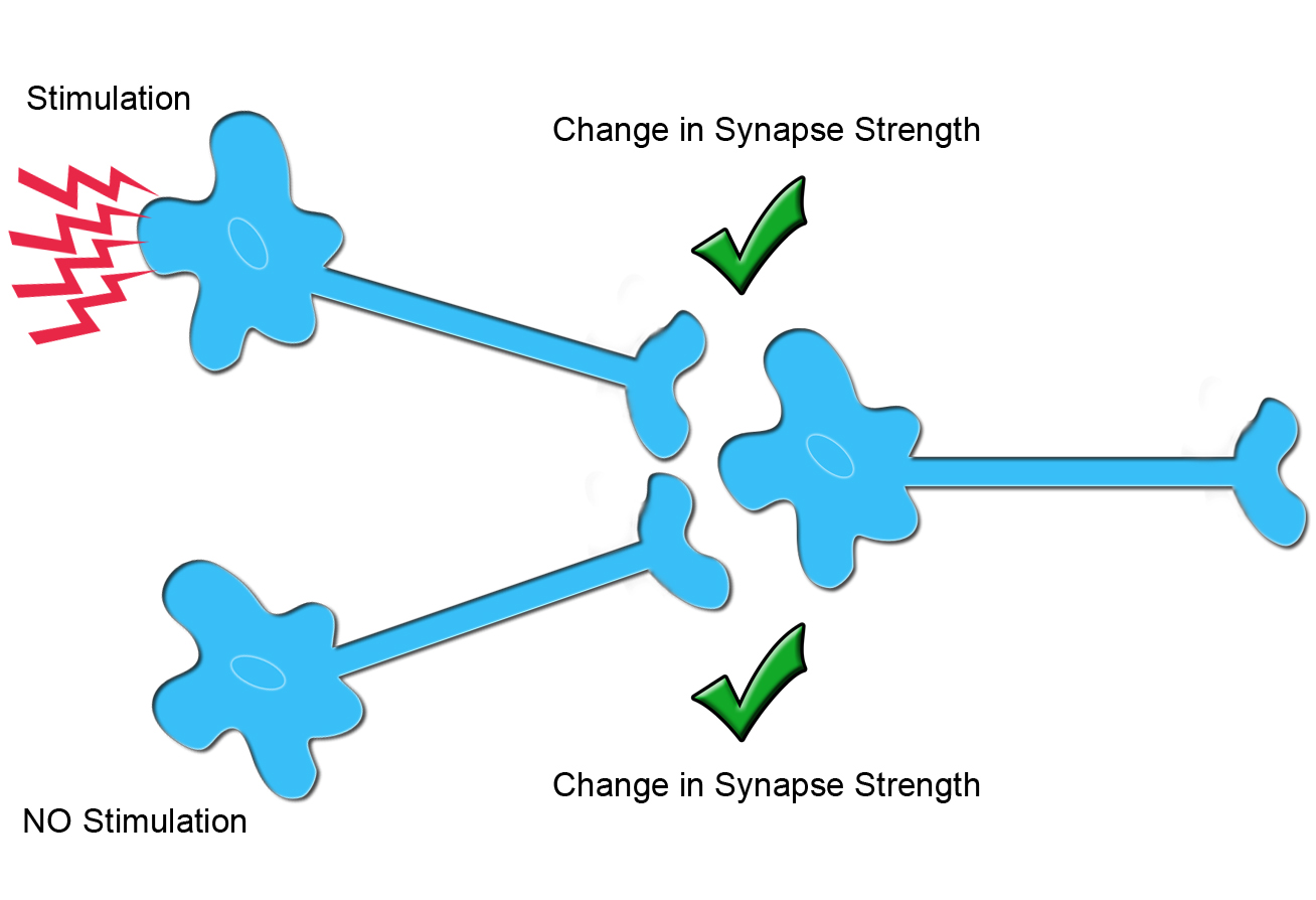 In heterosynaptic plasticity, neurons that are not specifically innervated undergo changes in synaptic plasticity in addition to those who are specifically innervated.